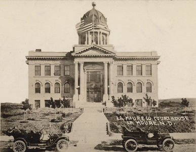 Photographic postcard of La Moure County Courthouse, La Moure, ND. The image is in the public domain as it was published before 1923. Source information on the NDSU web site shows postmark date of June 5, 1916